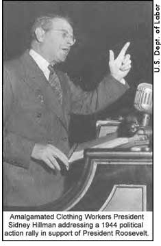 Amalgamated Clothing Workers President Sidney Hillman addressing a 1944 political action rally in support of President Roosevelt.